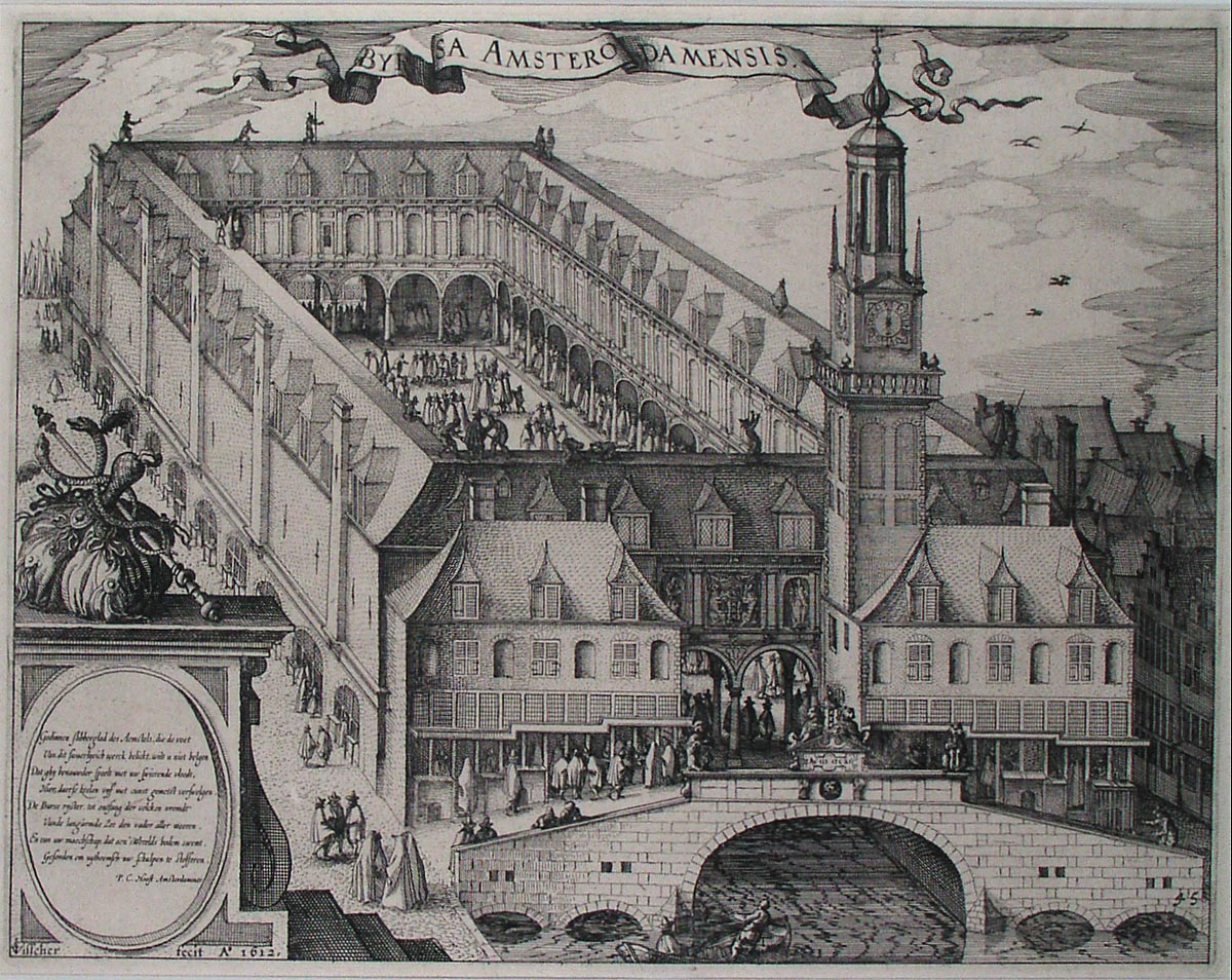 Engraving depicting the Amsterdam Stock Exchange, built by Hendrik de Keyser c. 1612